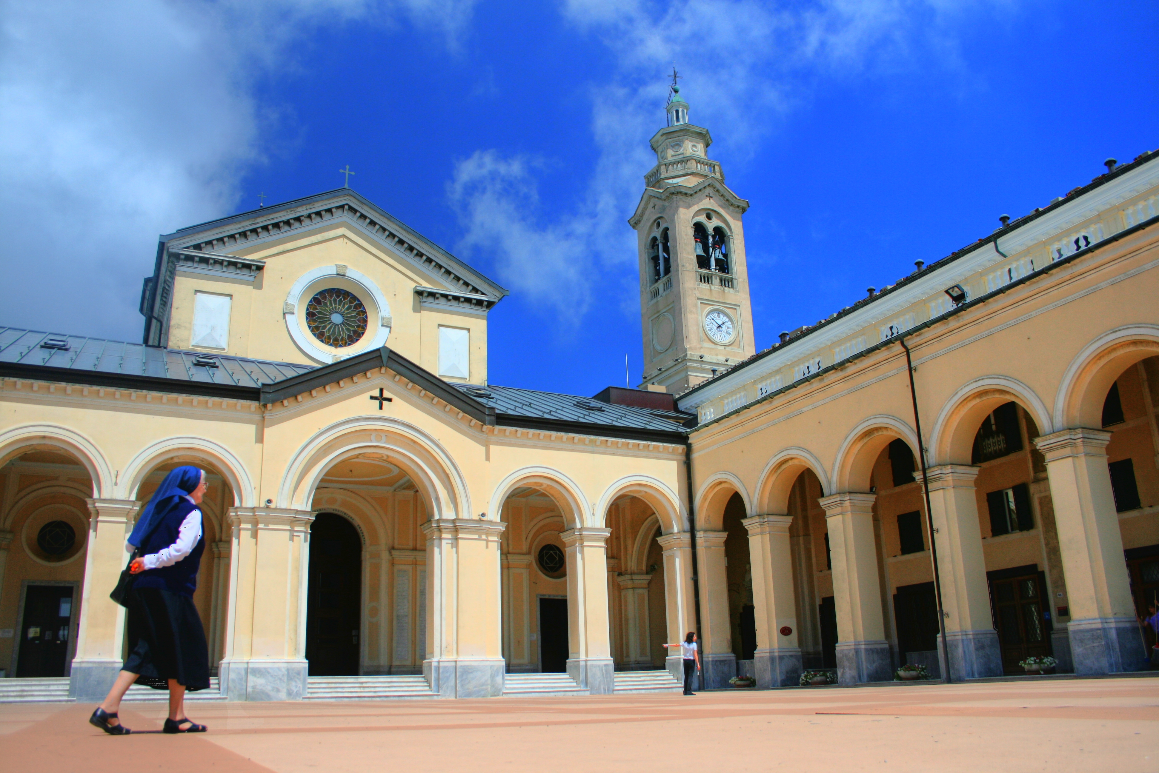 Shrine of Nostra Signora della Guardia in Ceranesi, near Genoa